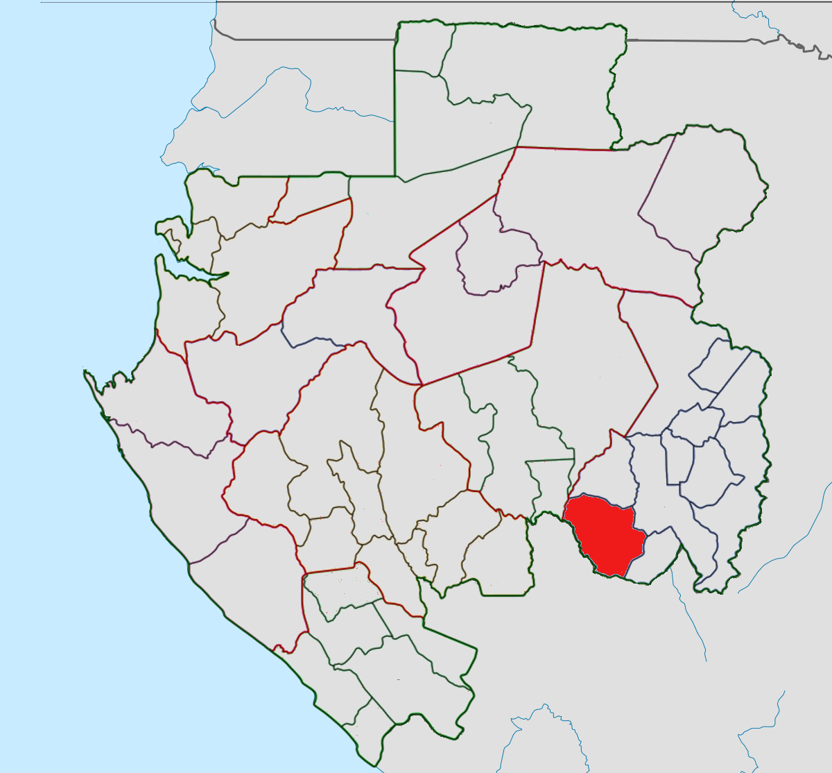 map of lékoko